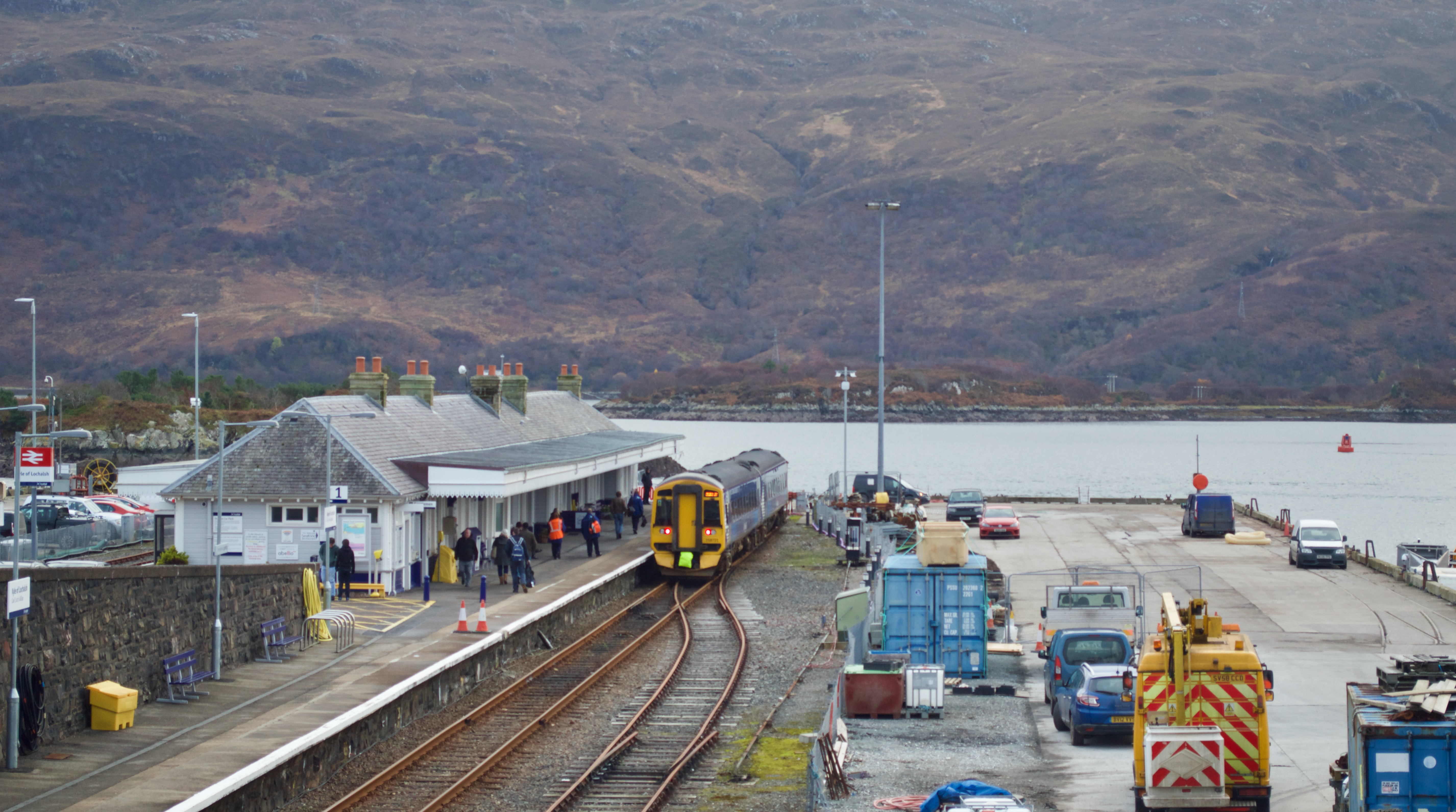 158.721 waits departure on 28 November 2016 with 2H84, 13:46 Kyle of Lochalsh to Inverness.